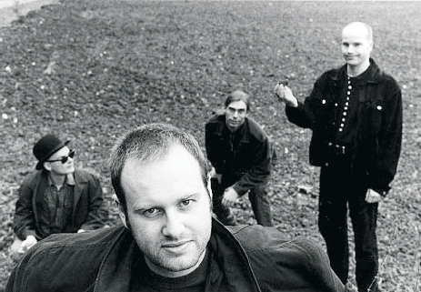 Cosmo zaloom